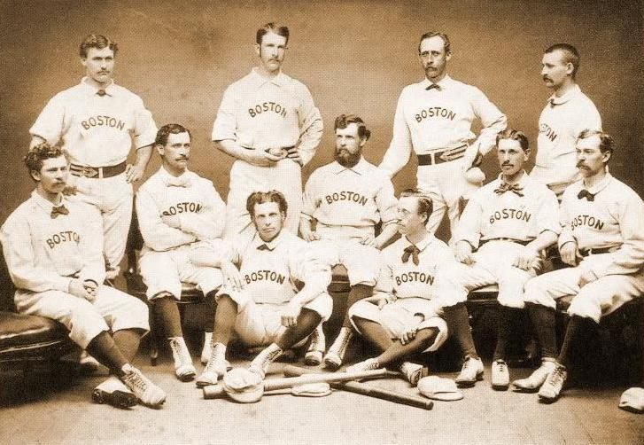 1874 Boston Red Stockings baseball teamStanding, L-R: Cal McVey, Albert Spalding, Deacon White, Ross BarnesSeated, L-R: Jim O'Rourke, Tommy Beals, Harry Wright, Harry Schafer, Andy LeonardOn ground, L-R: George Wright, George Hall